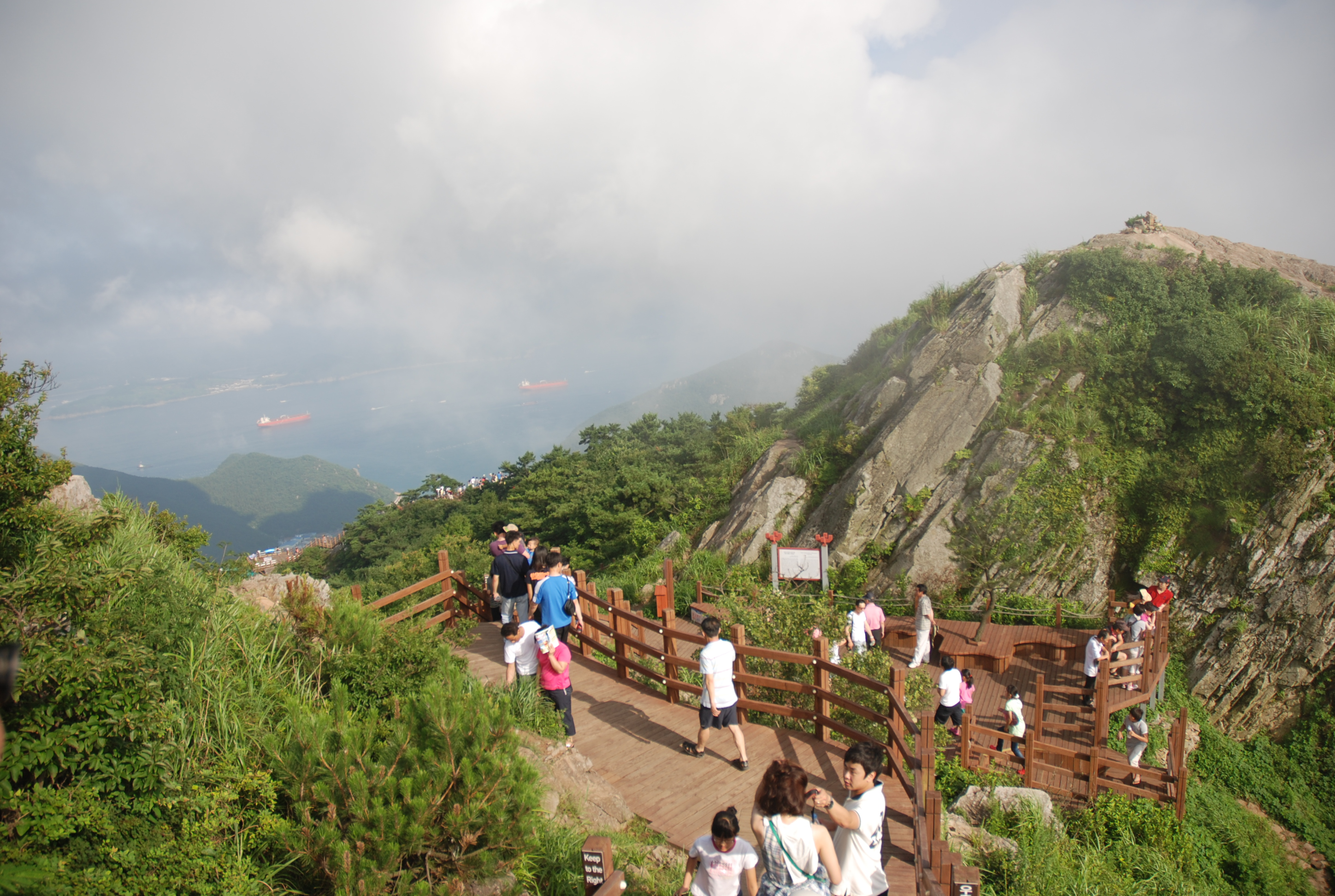 Tongyeong Mt.Miruek Path